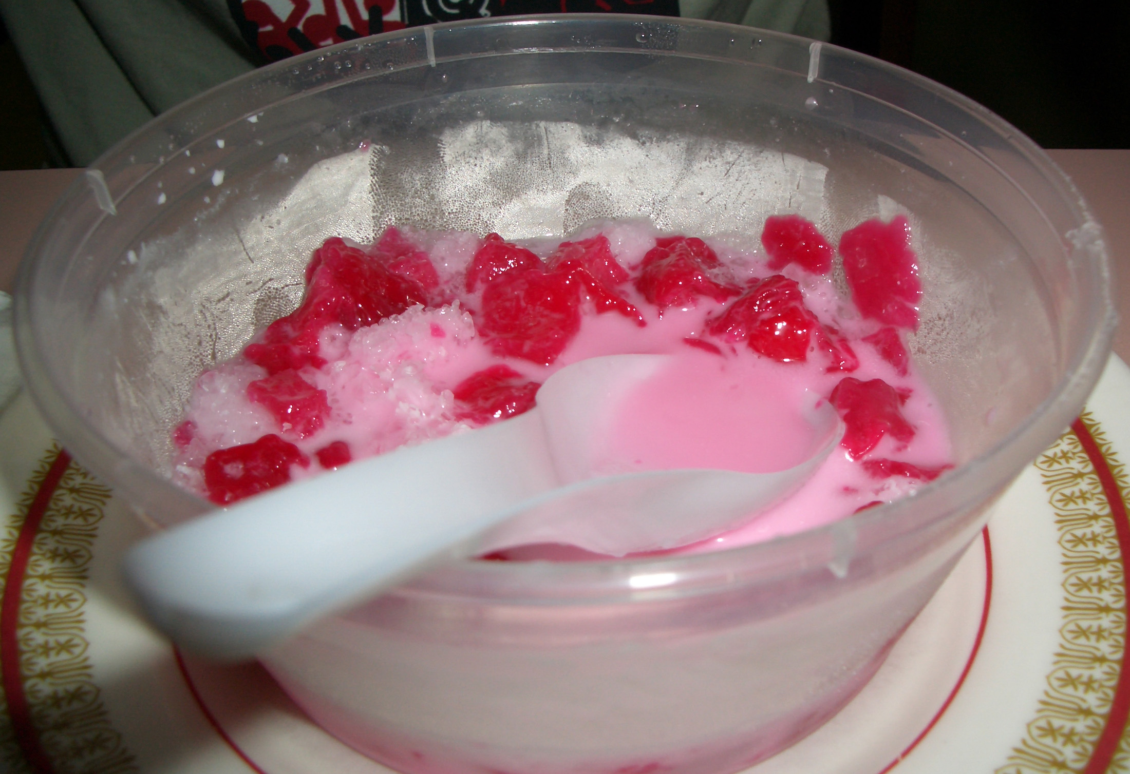 Tub tim krob, sometimes called "red rubies", a Thai dessert consisting of flour-coated pieces of water chestnut in coconut milk and shaved ice, photographed in Singapore.